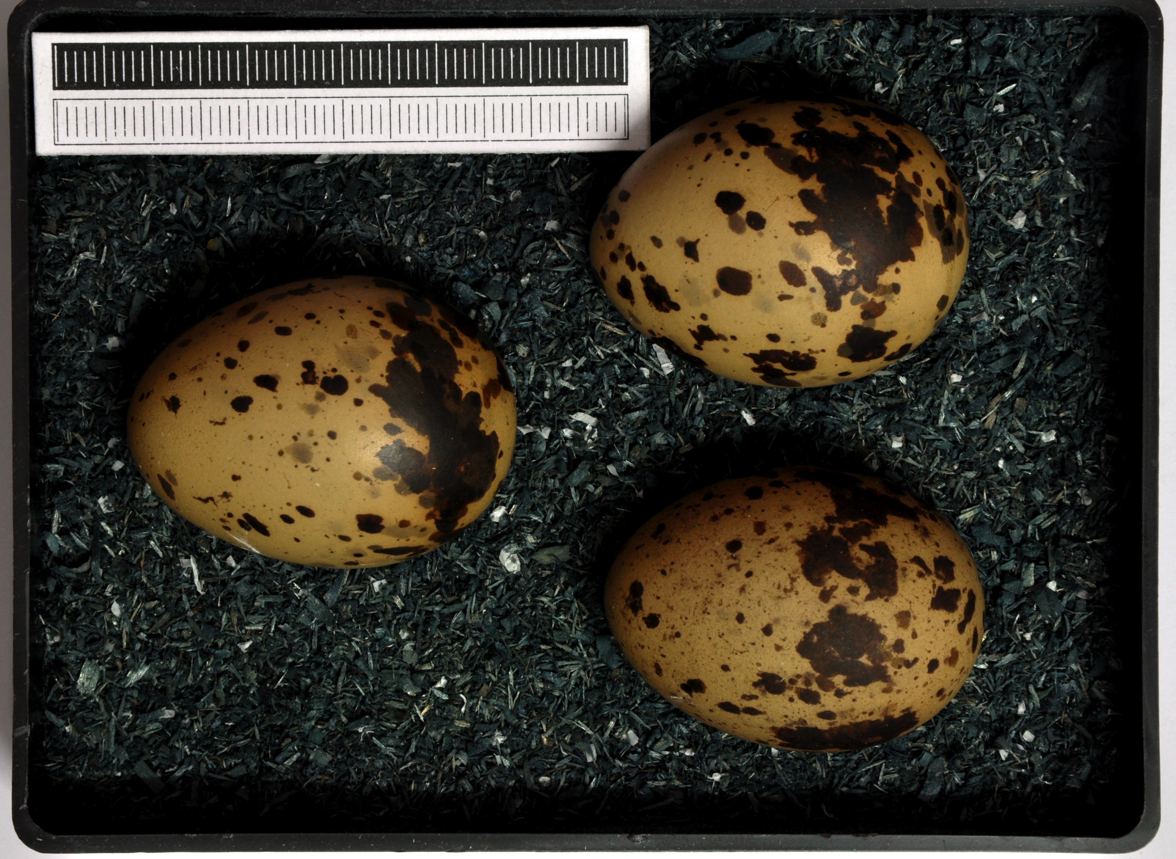 Arctic tern Sterna paradisaea, egg, Coll. Museum Wiesbaden, Origin: Spitsbergen, Norway, 29.06.1970, leg. W. Abelmann